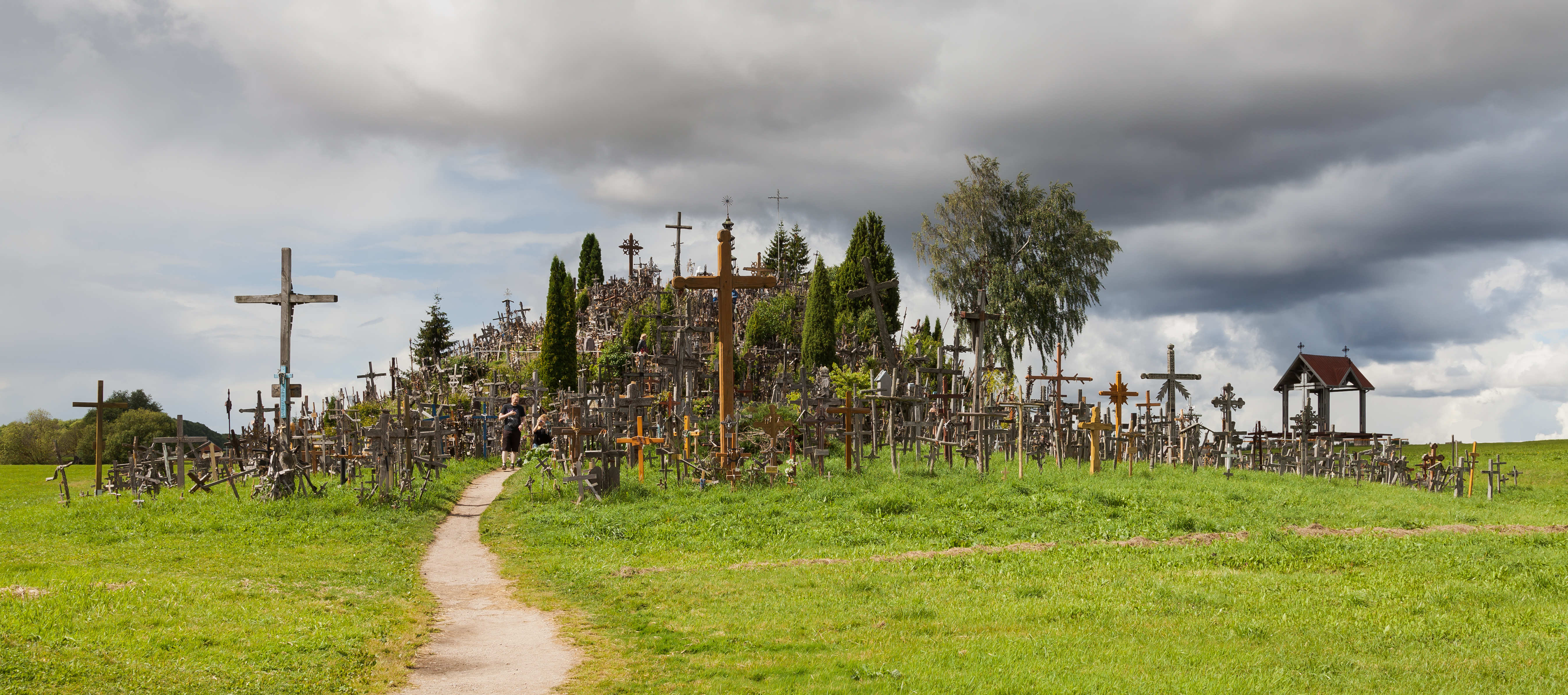 The Hill of Crosses is a site of pilgrimage near Šiauliai, in the north of Lithuania. It is believed that the first crosses were placed after the November Uprising, in the first half of the 19th century. According to an estimation the amount of crosses and crucifixes reached 100,000 back in 2006.